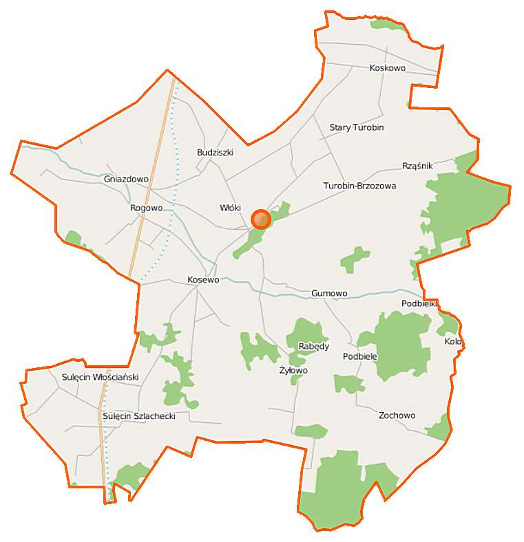 Map of Gmina Stary Lubotyń, Poland This map of Stary Lubotyń (gmina) was created from OpenStreetMap project data, collected by the community. This map may be incomplete, and may contain errors. Don't rely solely on it for navigation. Border coordinates52.983421.8247←↕→22.033852.8525